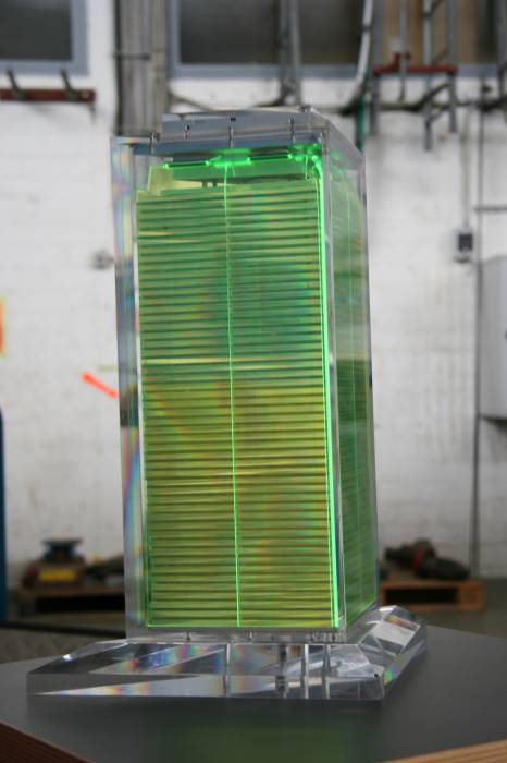 Calorimeter, DESY in Hamburg, Germany